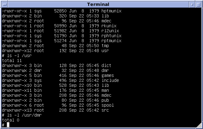 Version 7 Unix for the PDP-11, running in the SIMH PDP-11 simulator. The user ("dmr") and home directory ("/usr/dmr") for Dennis Ritchie are still present. Version 7 is considered an "Ancient Unix" and is no longer proprietary.